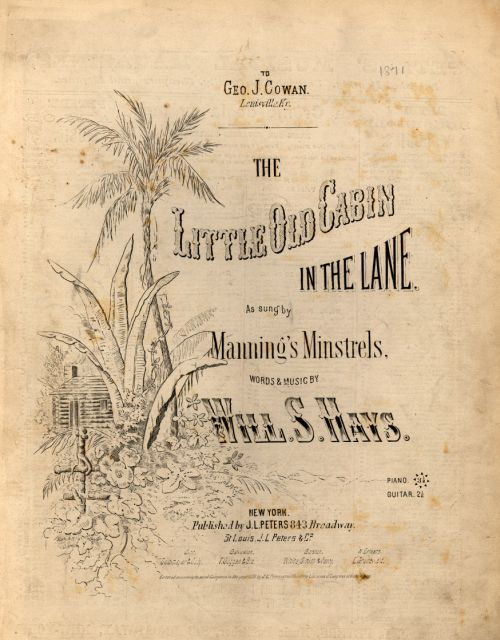 cover of sheet music published in 1871 and is in the public domain